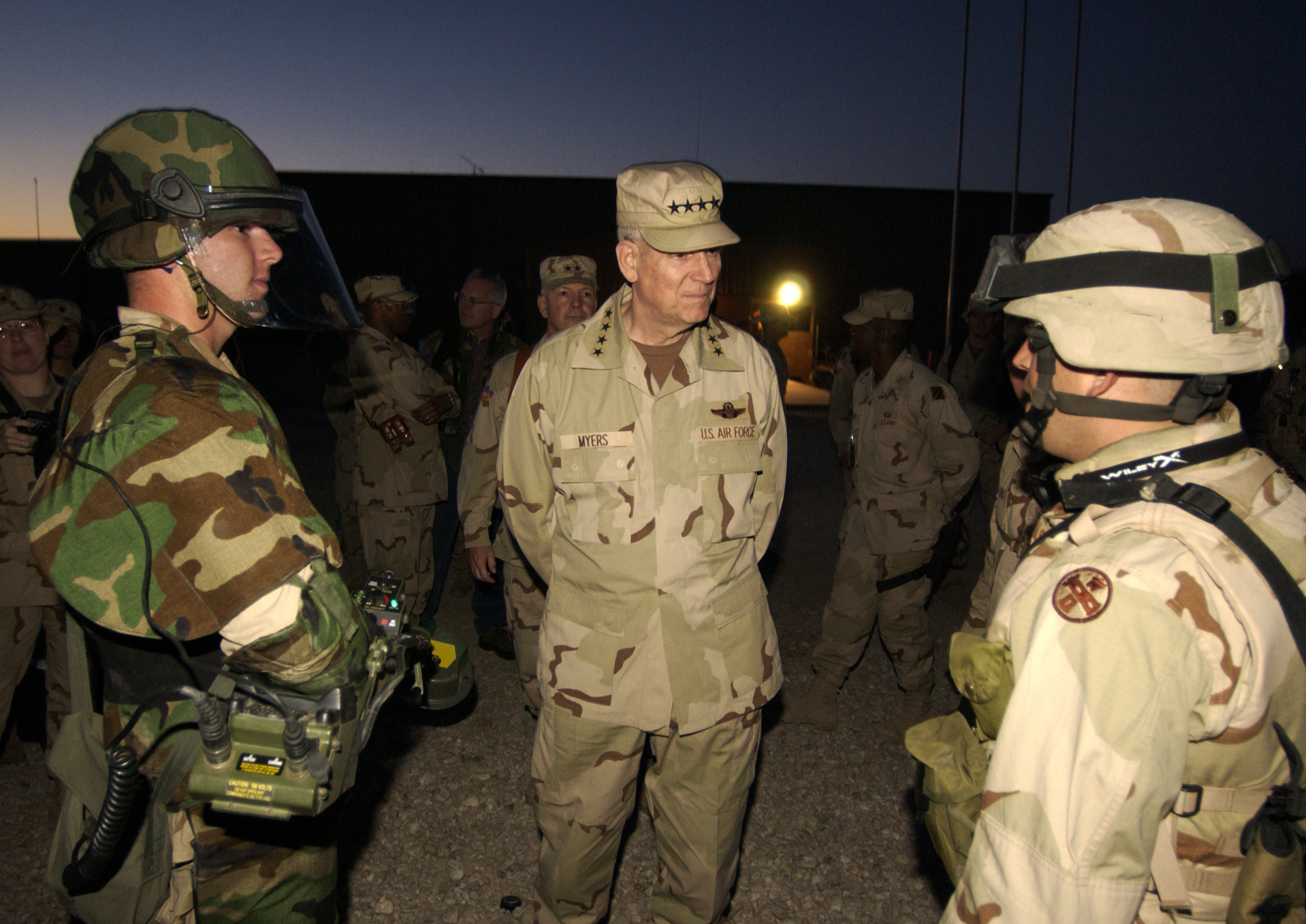 Chairman of the Joint Chiefs of Staff Gen. Richard B. Myers (center), U.S. Air Force, talks to soldiers with the 3rd Infantry Division after they gave him a demonstration on their latest mine detecting technology at Camp Victory, Iraq, on March 14, 2005. Myers is traveling throughout Iraq to talk to the senior leadership and the troops deployed there.